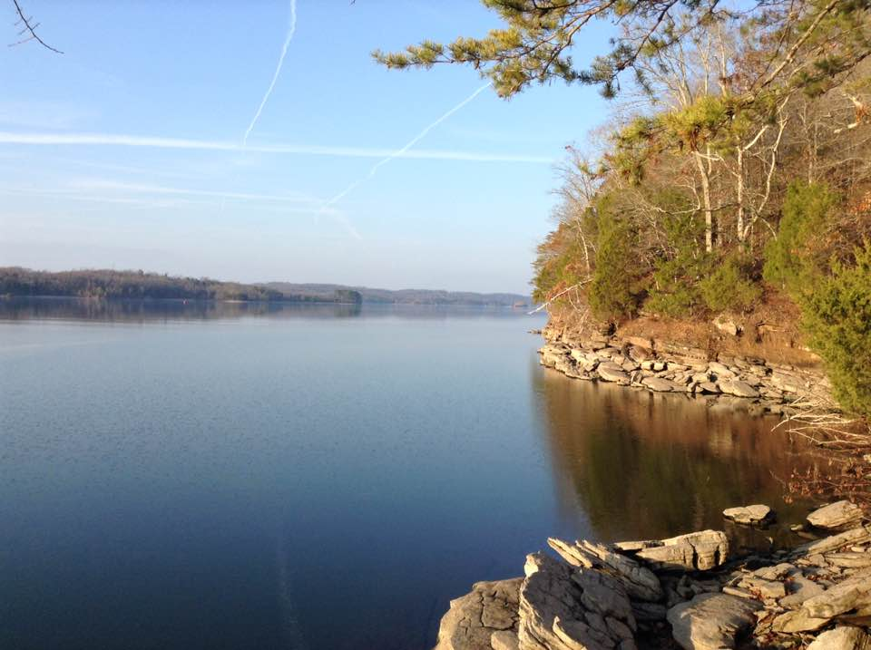 Watts Bar Lake just north of TVA Watts Bar in Decatur, Tennessee